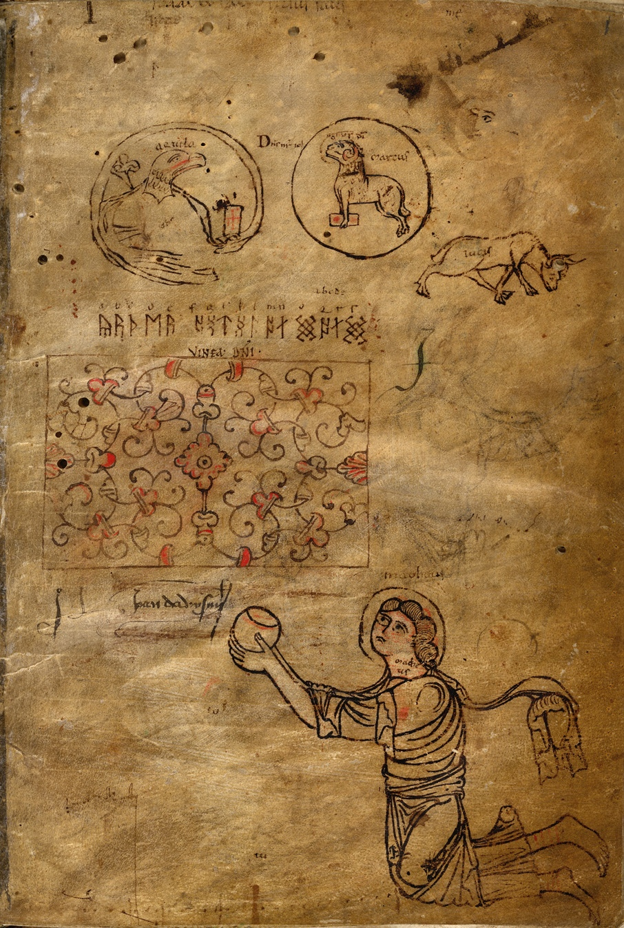 Tollemache Orosius (BL MS Add 47967) - folio 1r - Evangelist symbols